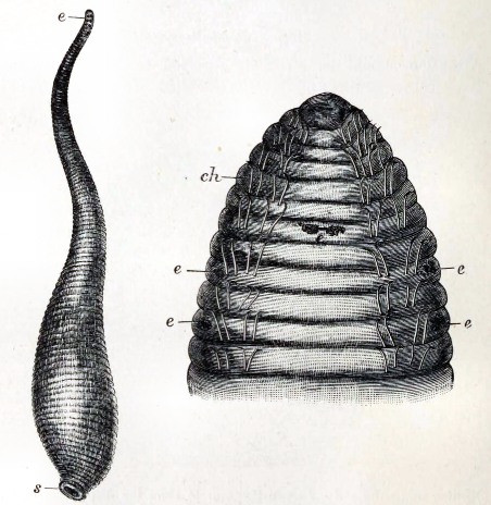 Acanthobdella, a genus of leeches; e) eyes; ch) chaetae; s) sucker